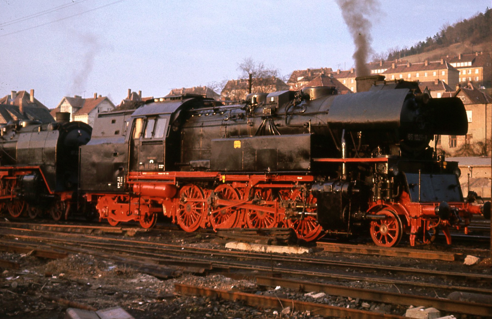 Ex-works 065.10 class at Meiningen, Easter 1972.